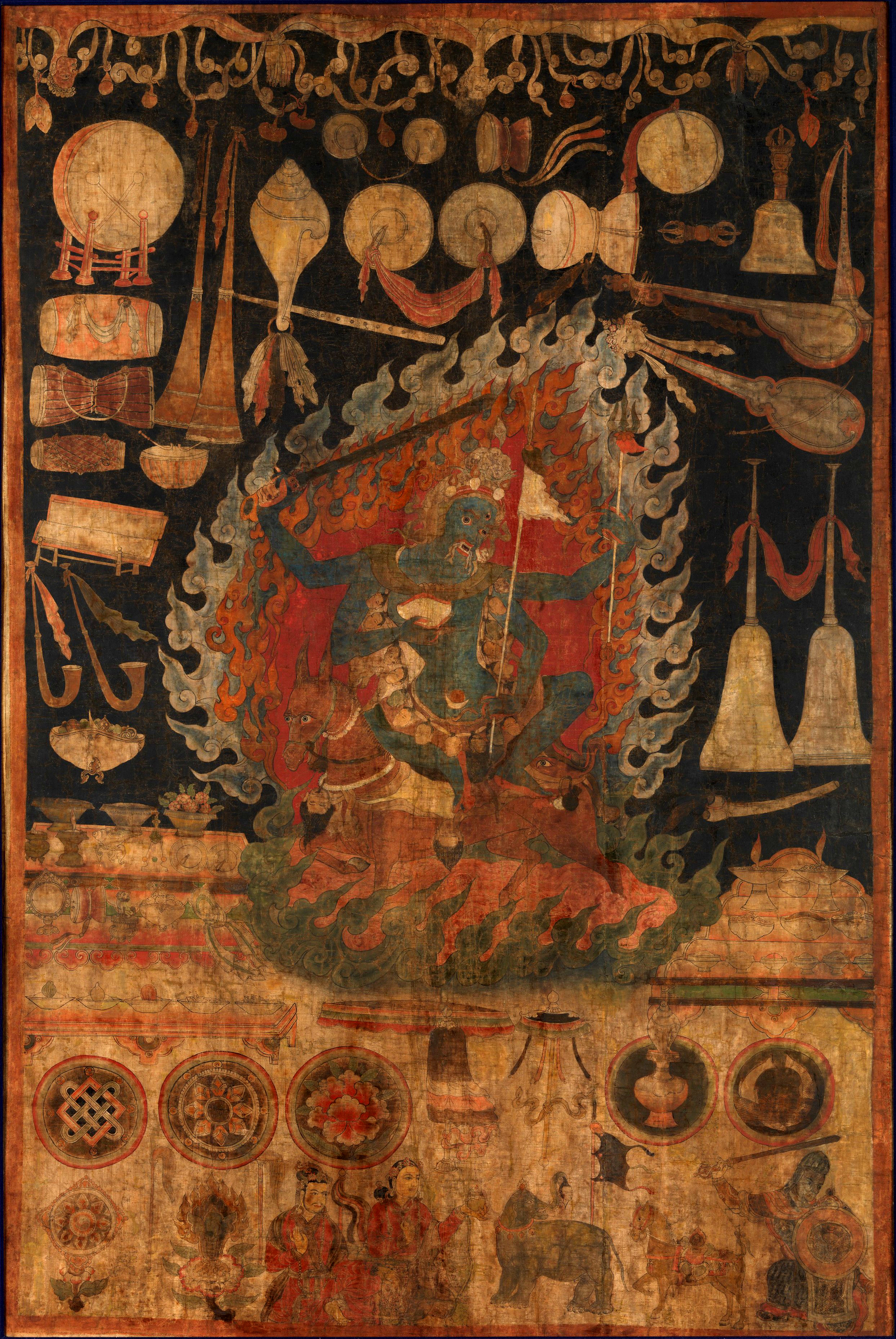 Offerings to the Goddess Palden Lhamo, Tibet. Distemper on cloth, 67 x 44 1/8 in. (170.2 x 112 cm). Palden Lhamo is the principal protectress of Tibet and the only female of the Eight Guardians of the dharma. This black-ground (Tibetan: nag thang) painting was installed in the chapel (gonkhang) dedicated to the wrathful protective deities (dharmapalas), a room reserved for tantric initiation rites within a Tibetan monastery. The exceptional scale and complexity of the composition relate the painting to the offering-scene murals known as “sets of ornaments” (Tibetan: rgyan tshogs) that adorn the interiors of shrines dedicated to the dharmapalas. At center, the wrathful four-armed goddess Palden Lhamo, emaciated and fearful, is shown riding her mule.